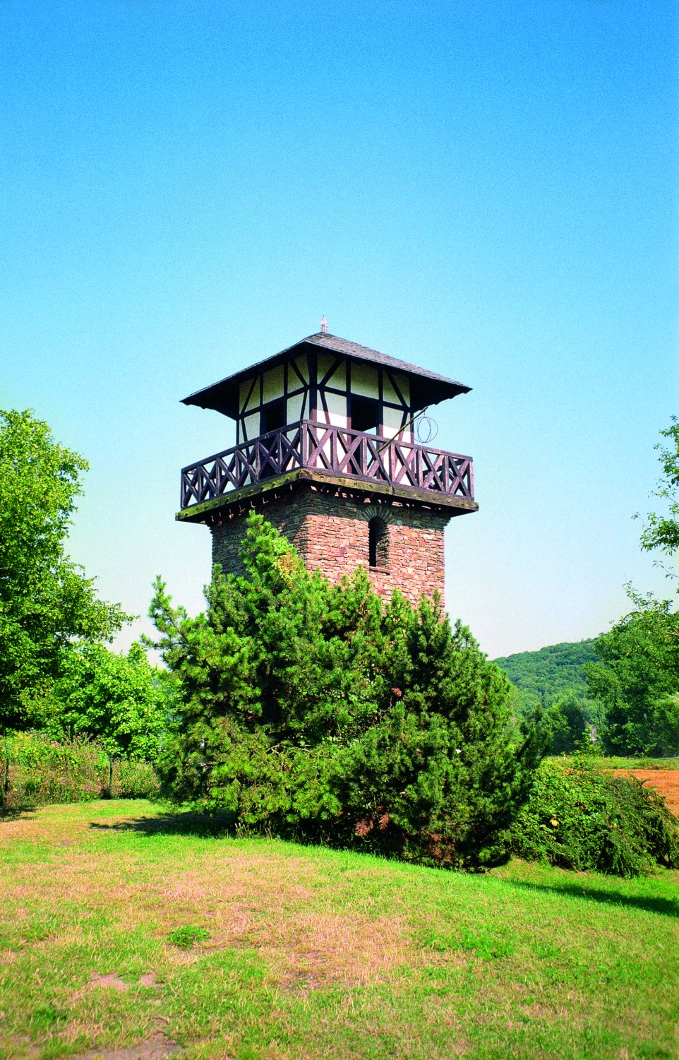 Scientifically wrong reconstructed Roman watchtower near Rheinbrohl